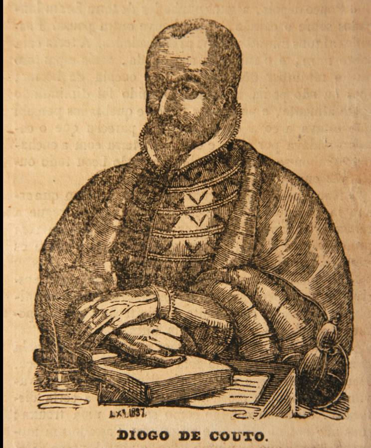 Woodcut Print - Diogo de Couto